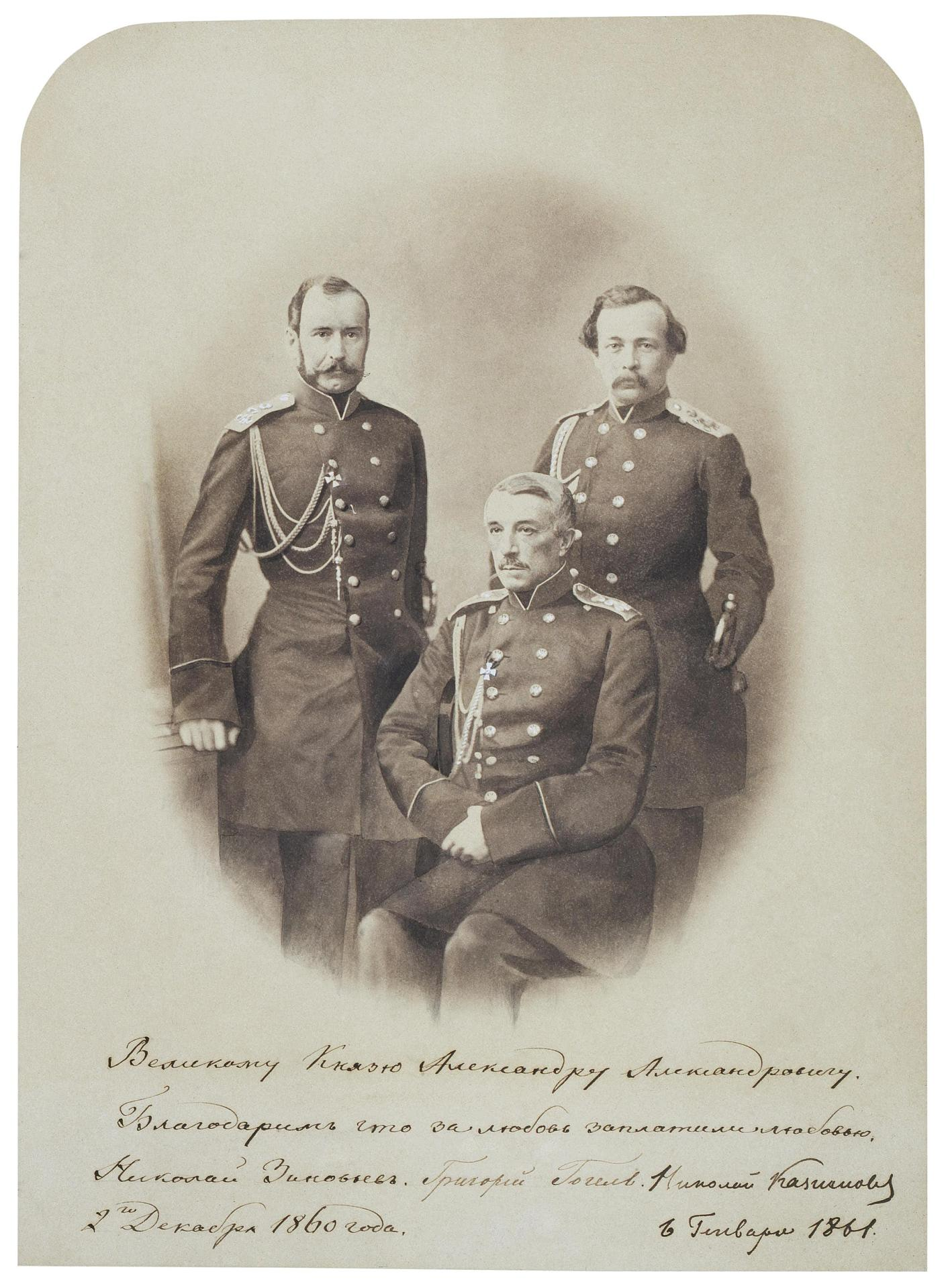 Sinovyev, Nikolay Vasilyevich (1801-1882) - Russian adjutant general, general of the infantry; Gogel, Grigory Fyodorovich (1808—1881) - Russian adjutant general, general of the infantry; Kasnakov, Nikolay Gennadyevich (1823-1885) - Russian adjutant general, general of the infantry.